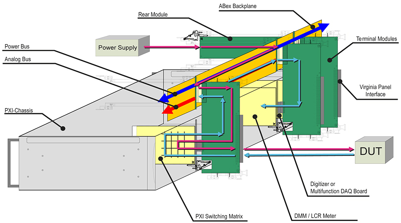 ABex System architecture, PXI instrument interconnection using an analog bus backplane and terminall modules